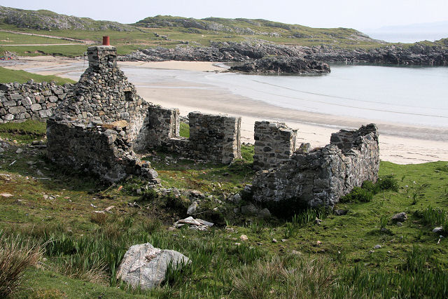 Derelict house at Sorisdale Work has commenced on renovating this derelict house, which has a superb location at the head of Sorisdale Bay.